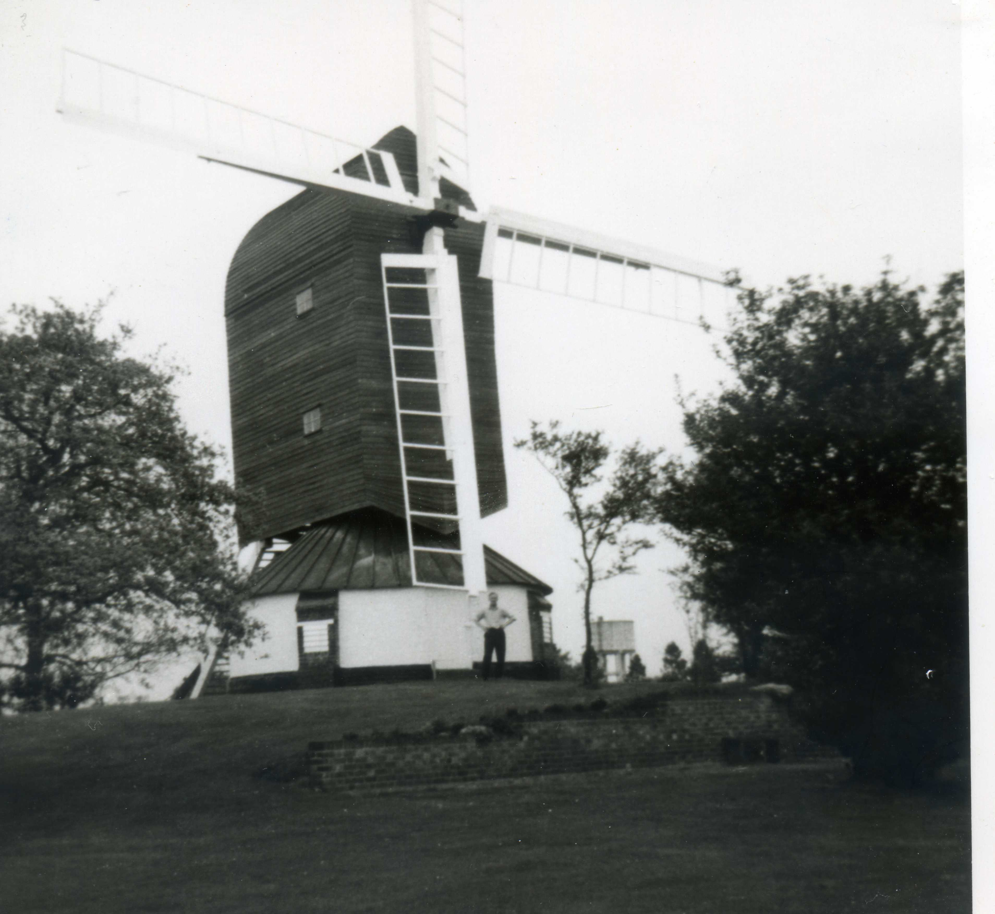 Post mill privately preserved at Fryerning, Essex